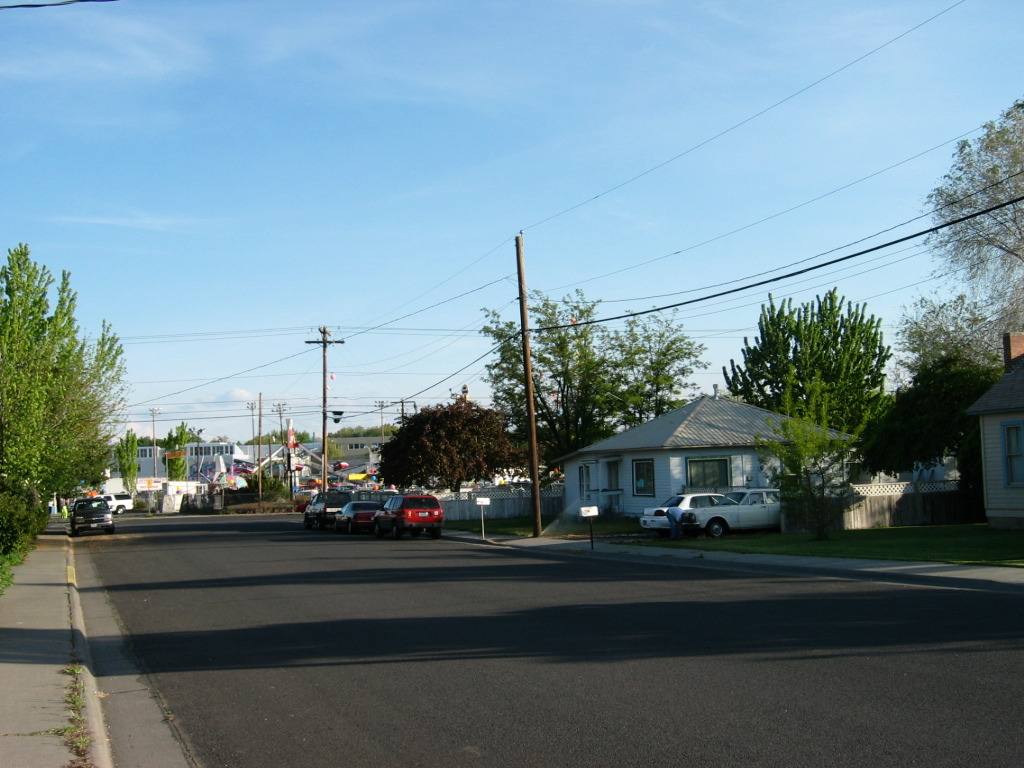 Street in Hermiston, Oregon, fairgrounds in the background.